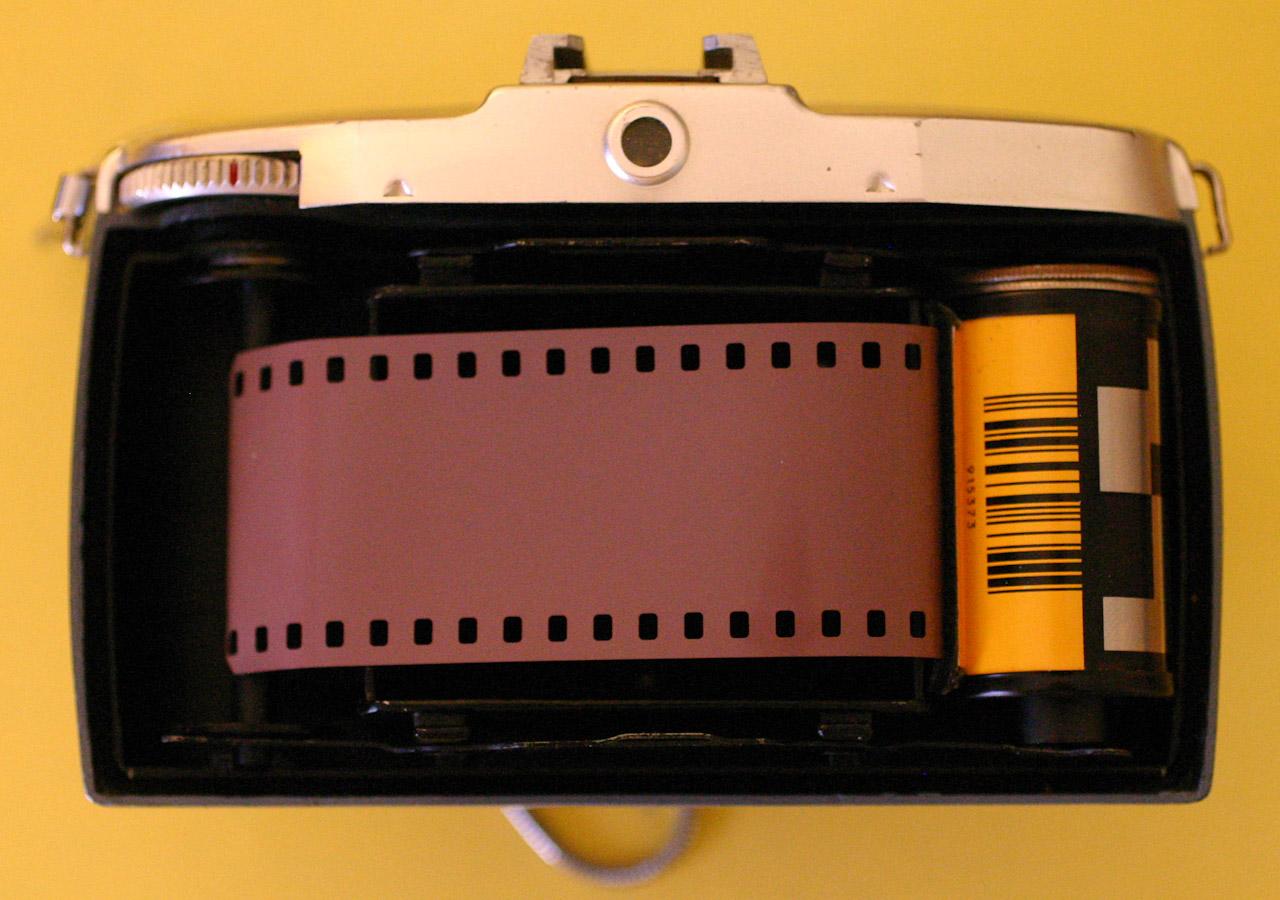 35mm cart fits in the 127 film feed spool area of a Bilora Bella (Mod. 55 or 56) w/two quarters as spacers.